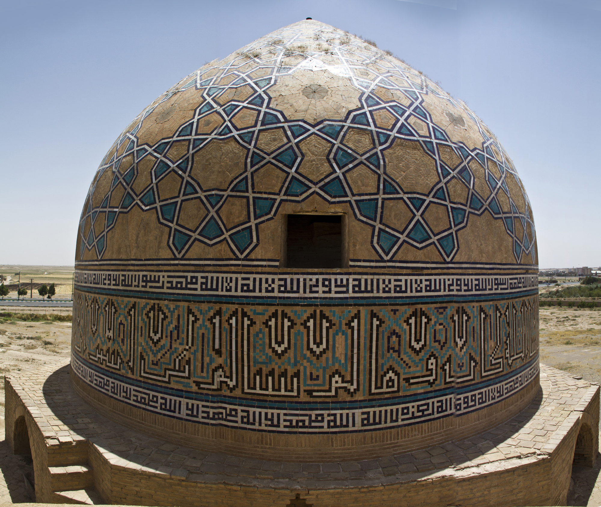 Saveh Jamee Mos. Iran in a Shiny Spring day